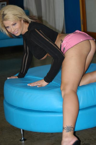 Brooke Haven on Set Of DCypher's Taboo 22 From Metro, June 06 2006